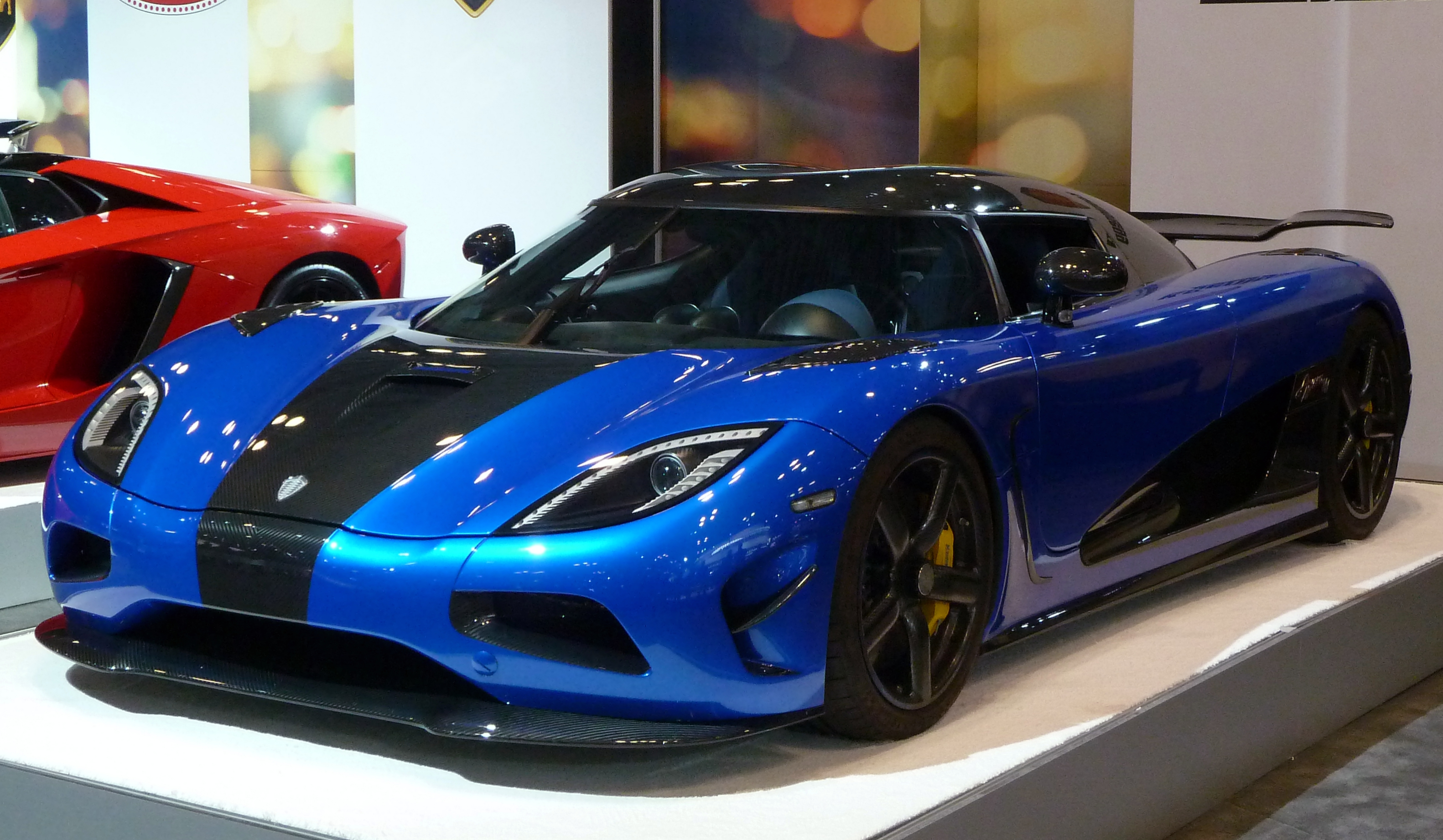 Koenigsegg Agera HH at 2015 New York International Auto Show